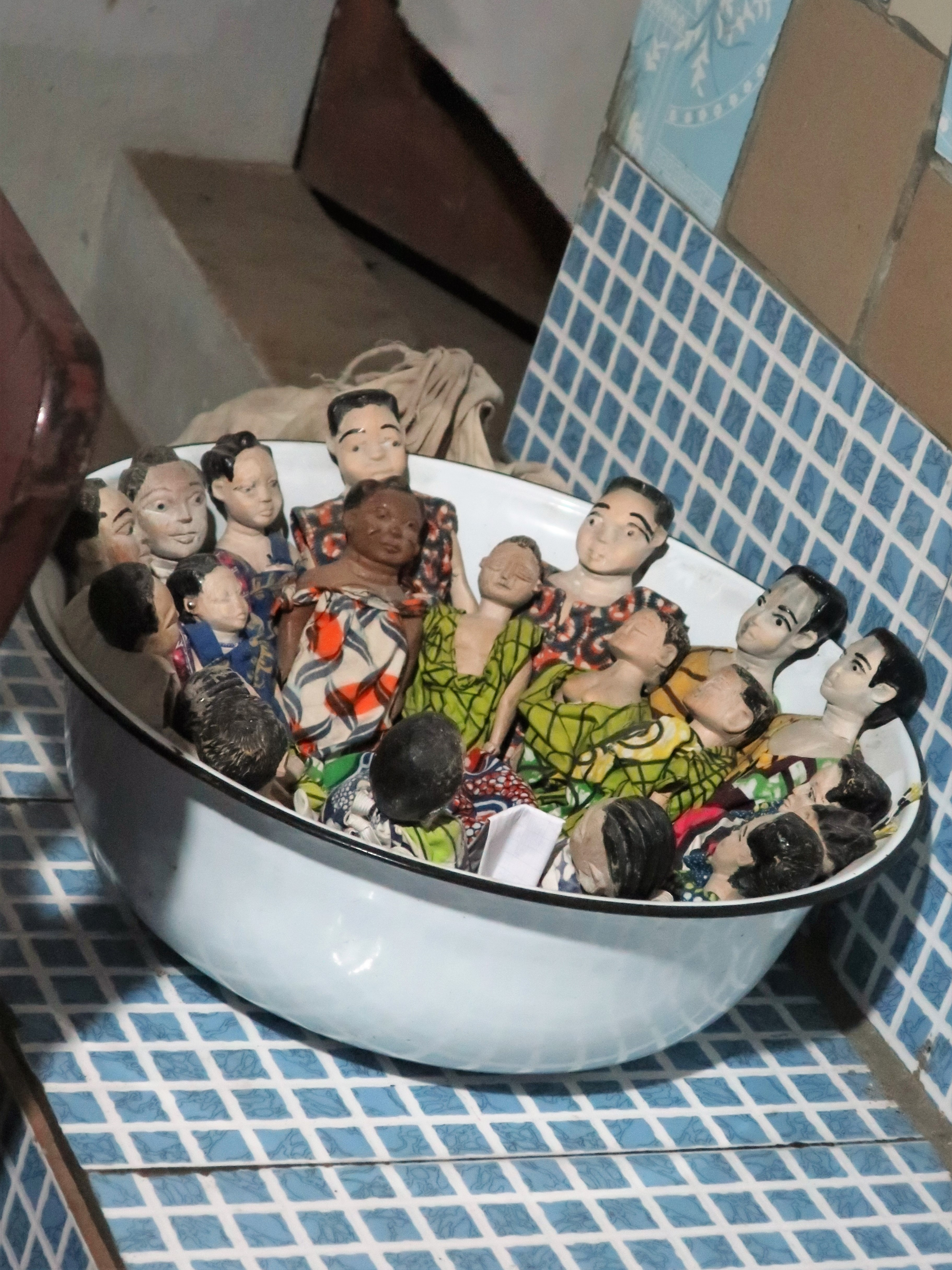 small dressed dolls in a bowl